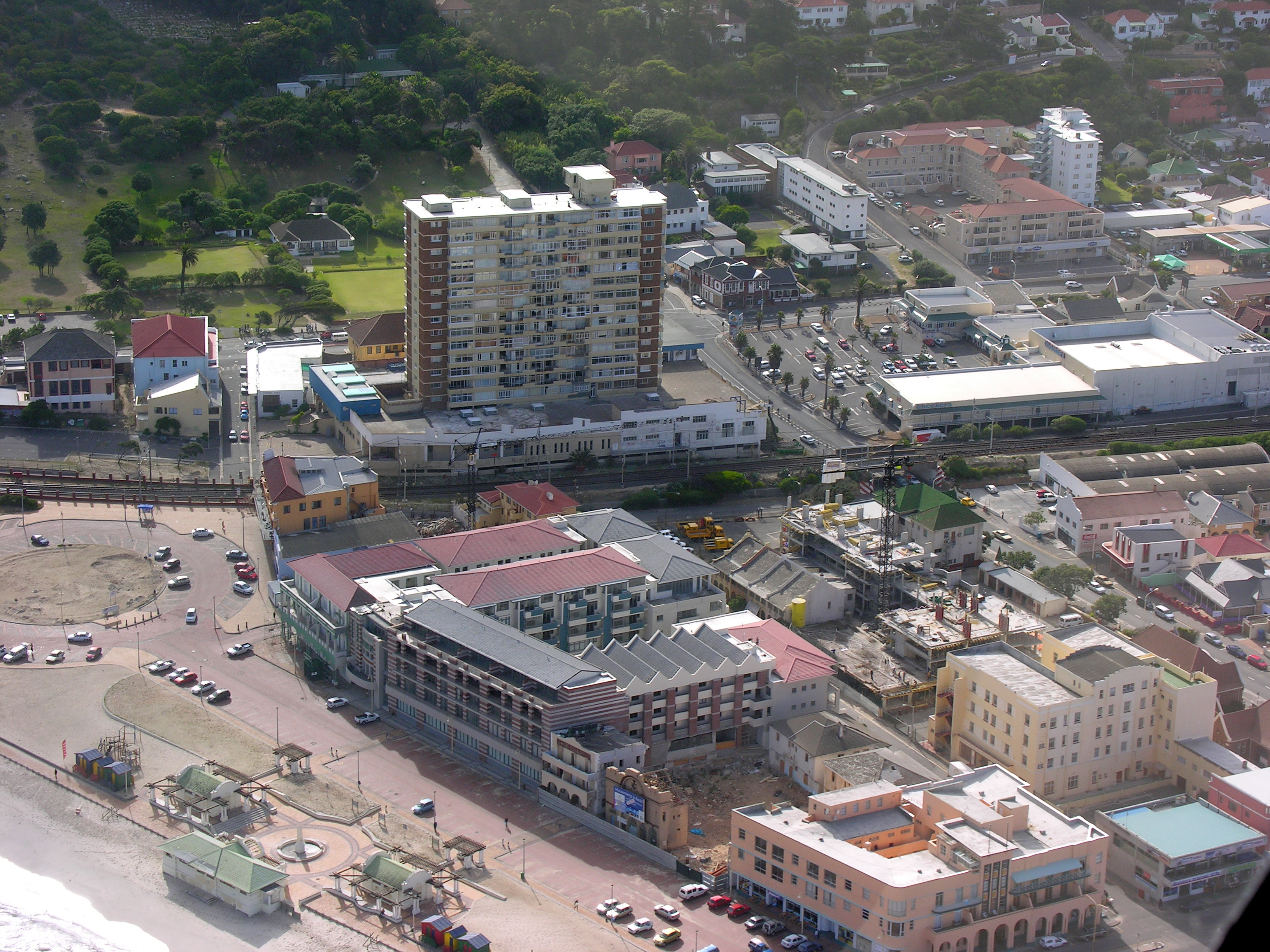 South Africa, Aerial views around Cape Town. For exact location see geocode.